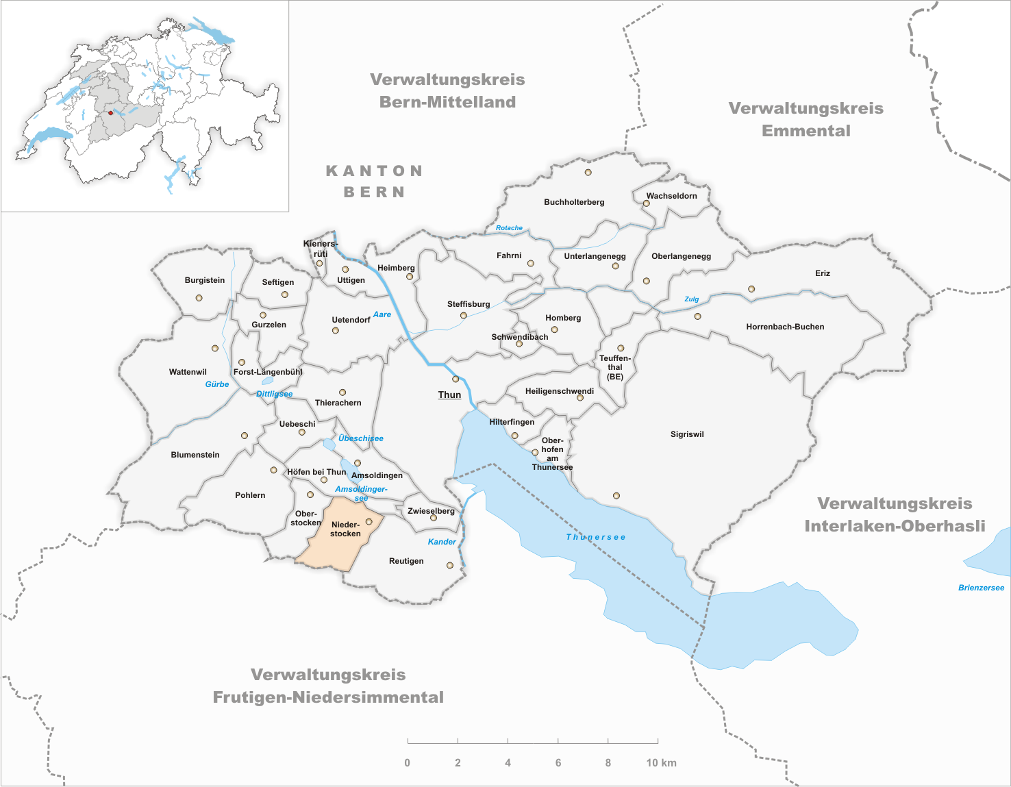 Municipality Niederstocken